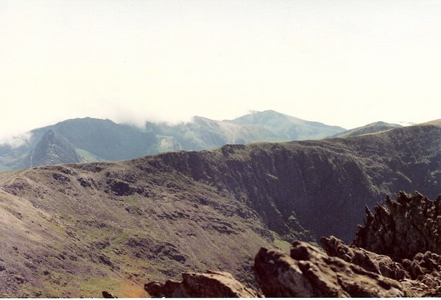 Ysgolion Duon. Ysgolion Duon (Black Ladders) are crags between Carnedd Llewelyn and Carnedd Dafydd